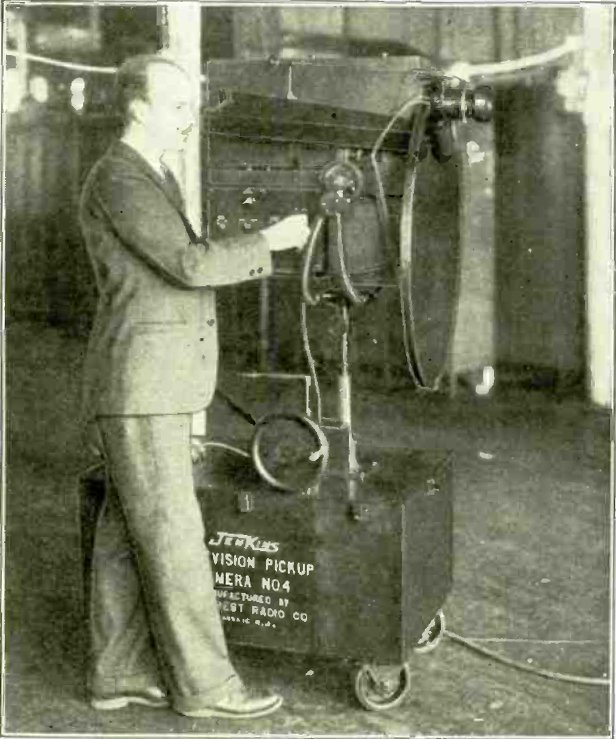 An early mechanical-scan television camera made by Jenkins Co., Passaic, New Jersey, used in experimental television broadcasts in the 1930s. This used a large spinning disk called a Nipkow disk (visible in housing at front of camera) pierced by a spiral pattern of holes, rotating behind the lens. Each hole, passing across the image, produced a scan line of video. A phototube in back of the disk produced a video signal which varied with the brightness of the image at each point. Dozens or experimental television stations during the 1920s and 30s broadcast with these mechanical-scan television systems.